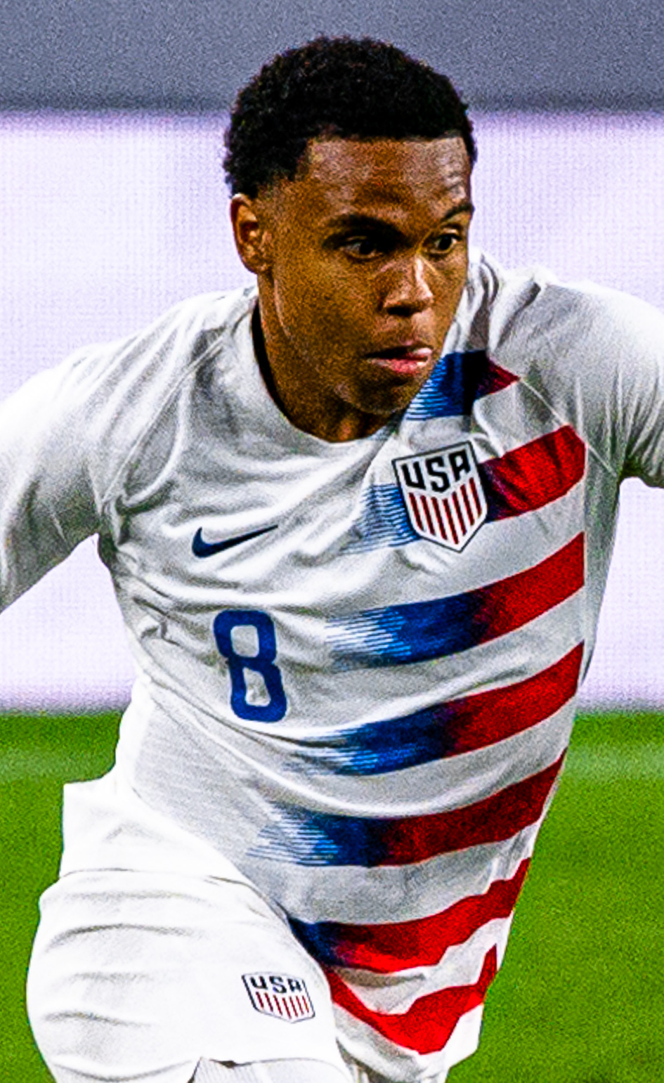 USMNT vs. Trinidad and Tobago